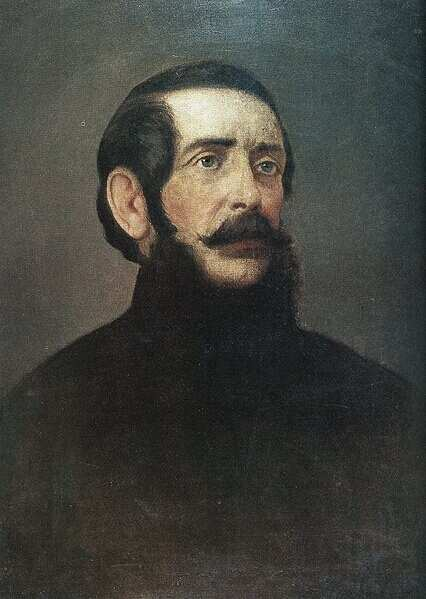 Kossuth Lajos in the emigration.